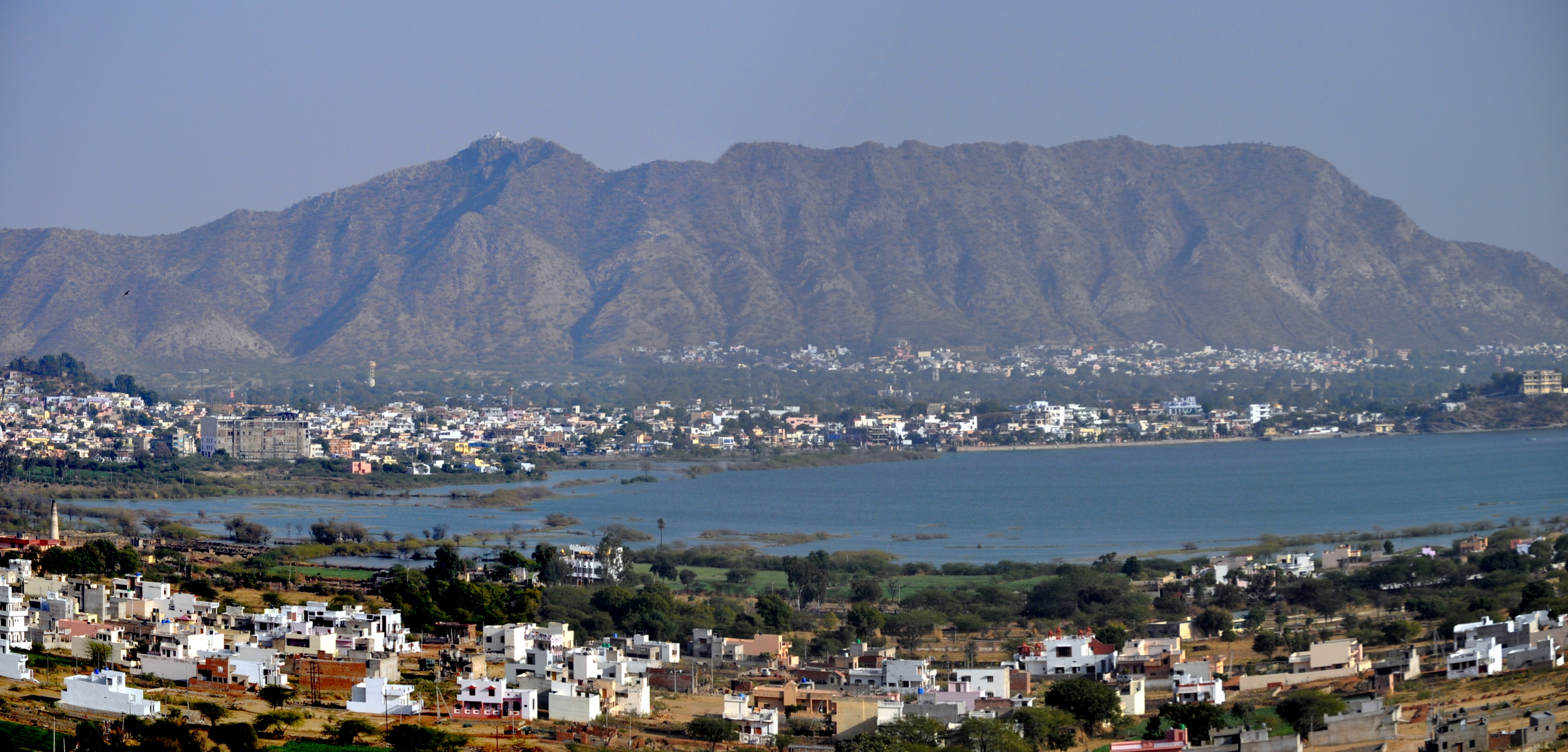 Historical Importance